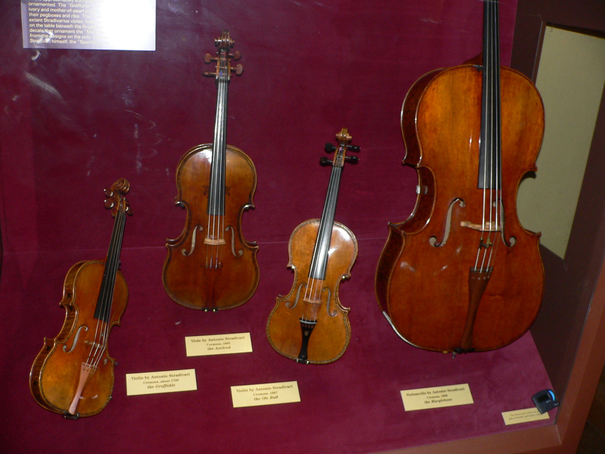 Four Stradivarius violins. From left to right: Greffuhle, Axelrod, Ole Bull, Marylebone The Axelrod quartet of Stradivarius instruments, on display in the Smithsonian Institution National Museum of American History. From left to right: Greffuhle violin (1709), Axelrod viola (1695 or 1696), Ole Bull violin (1677), and Marylebone cello (1688) References Violin by Antonio Stradivari, 1709 (Greffuhle). . Cozio LLC. Viola by Antonio Stradivari, 1695 (Axelrod). . Cozio LLC. Violin by Antonio Stradivari, 1687 (Ole Bull). . Cozio LLC. Cello by Antonio Stradivari, 1688 (Cazenove, Marylebone). . Cozio LLC.